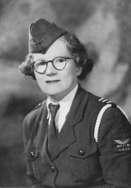 Portrait of McKenzie. Part of an album of portraits of early members of WESC put together by her.